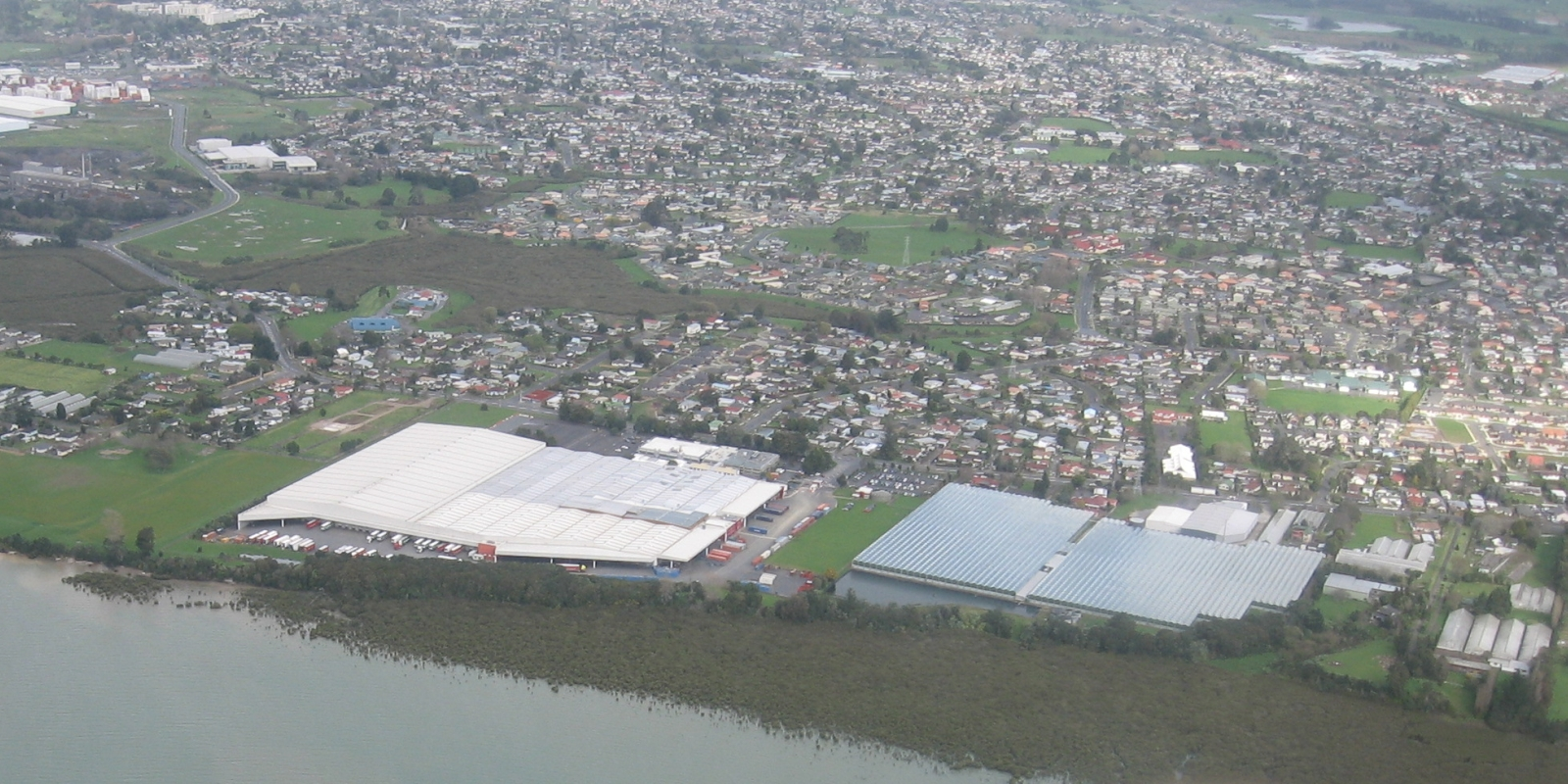 Looking south over Favona in Auckland, New Zealand. The big building to the left is the distribution centre for the supermarkets of Progressive Enterprises.